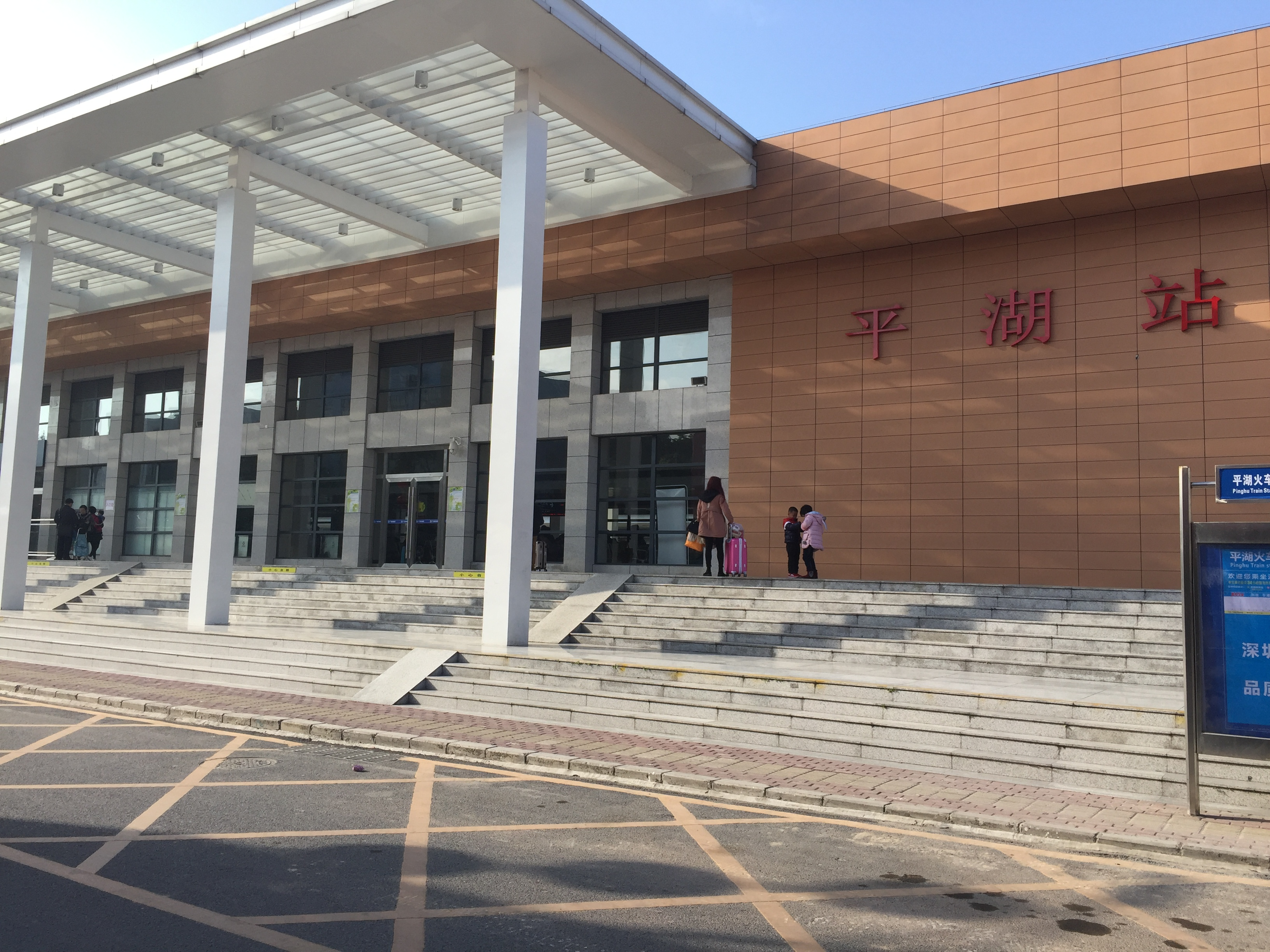 front view of the PingHu train station in the GuanShen Railway